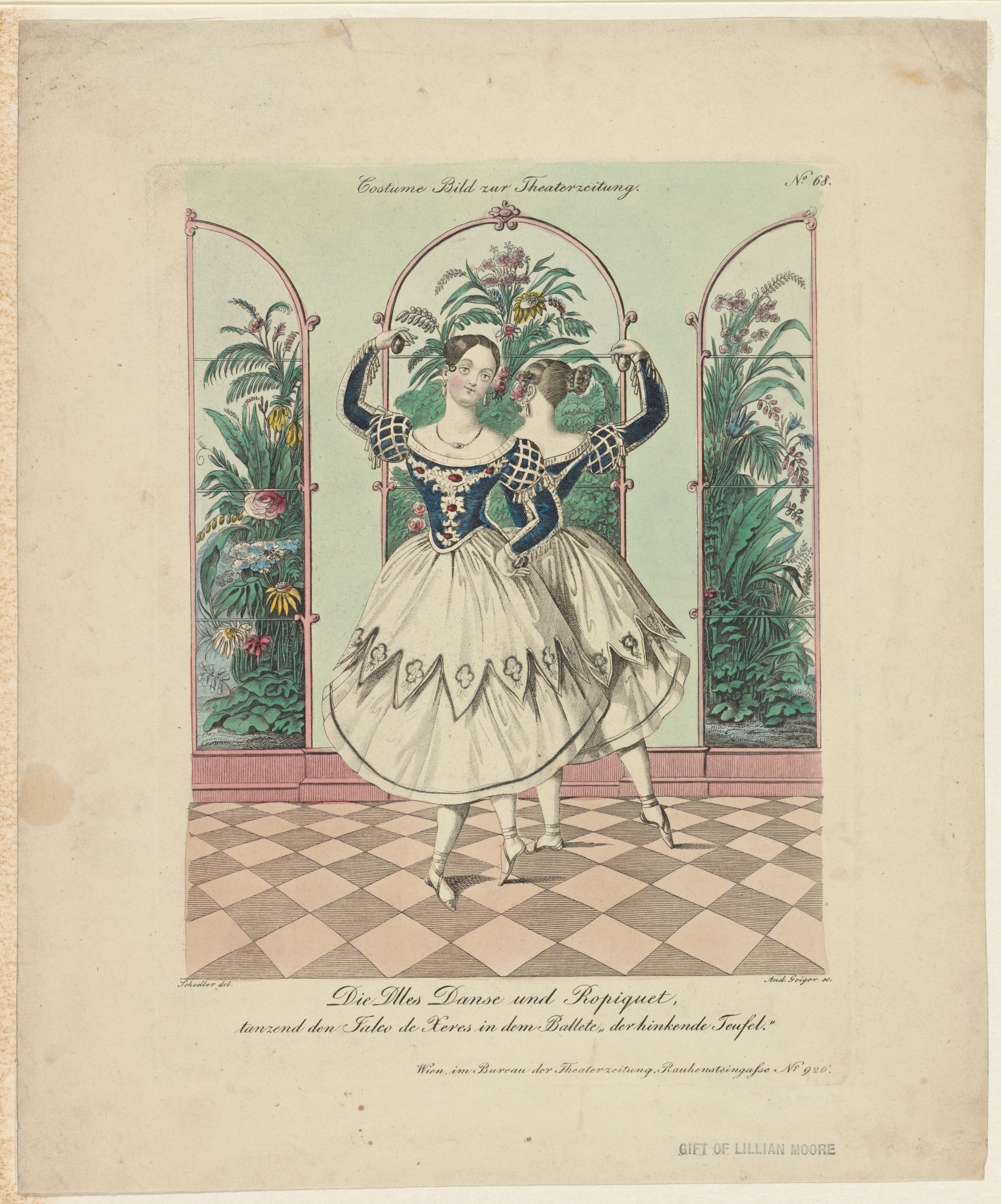 Schoeller del., And. Geiger sc.